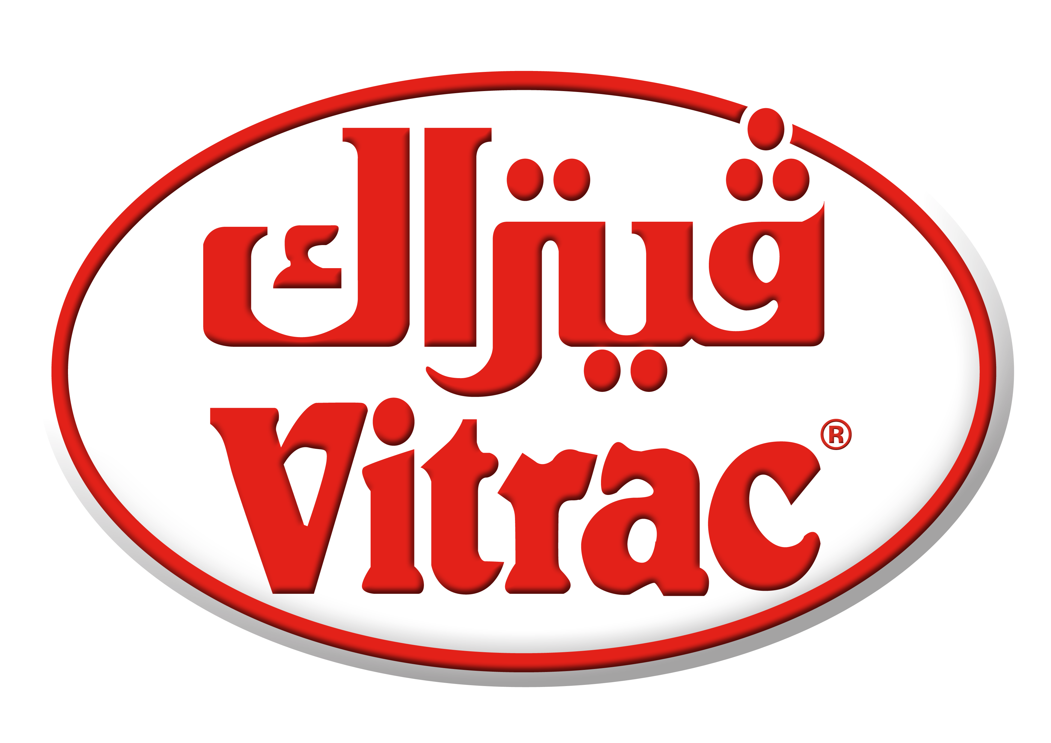 Vitrac Logo